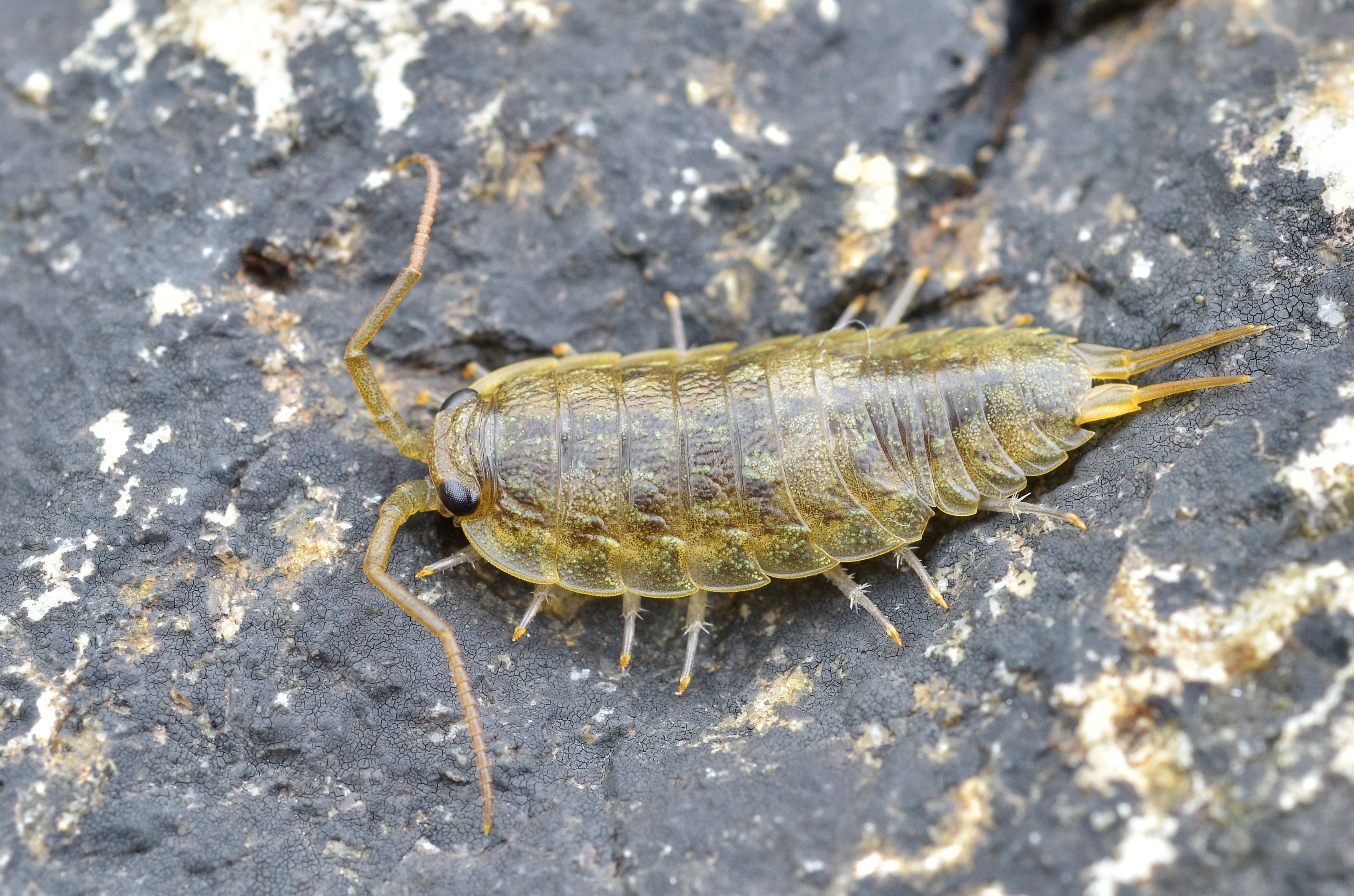 The woodlice Ligia oceanica (Crustacea, Isopoda, Ligiidae) Location : Fort-la-Latte, Plévenon, Bretagne, France